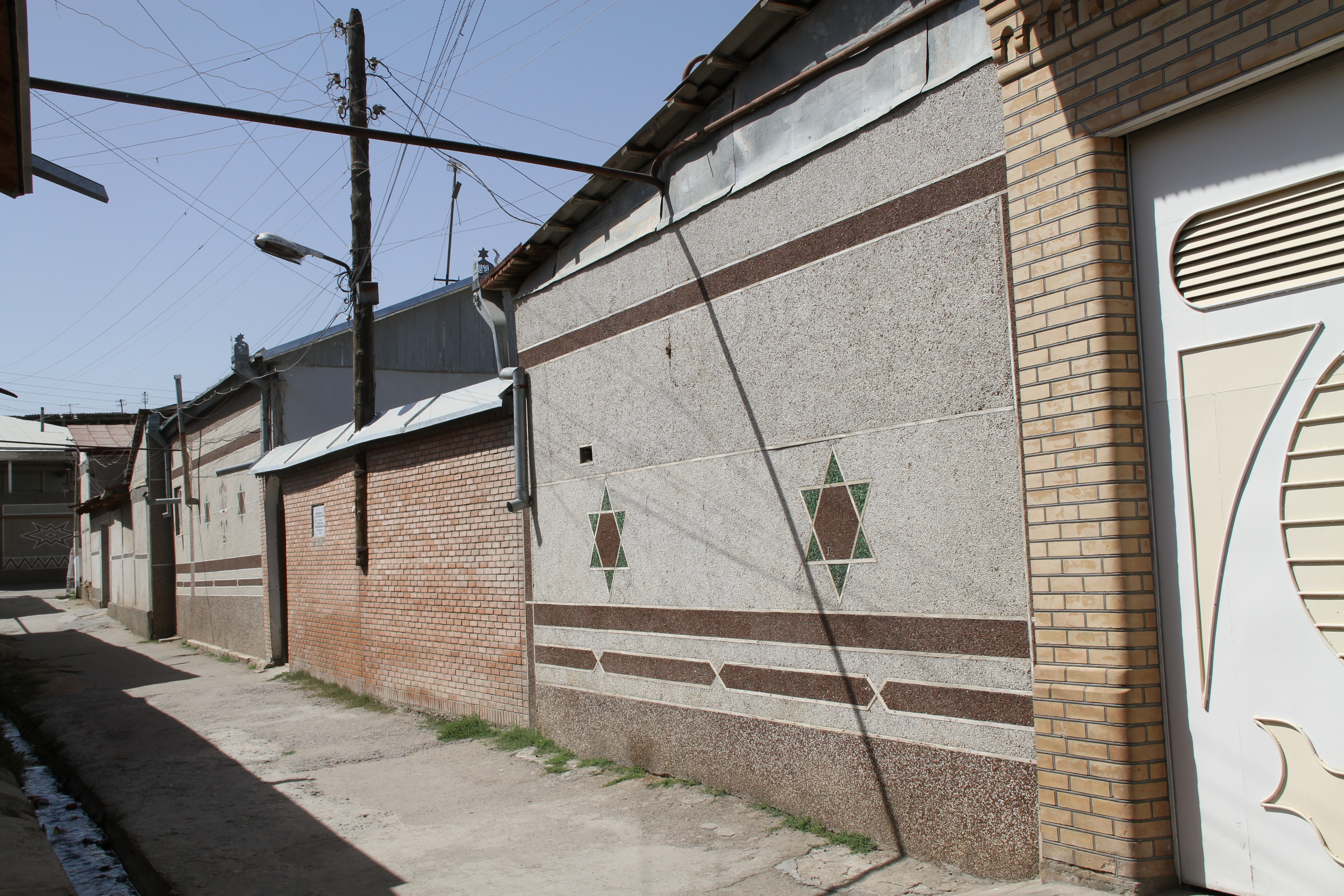 Synagogue in Samarkand